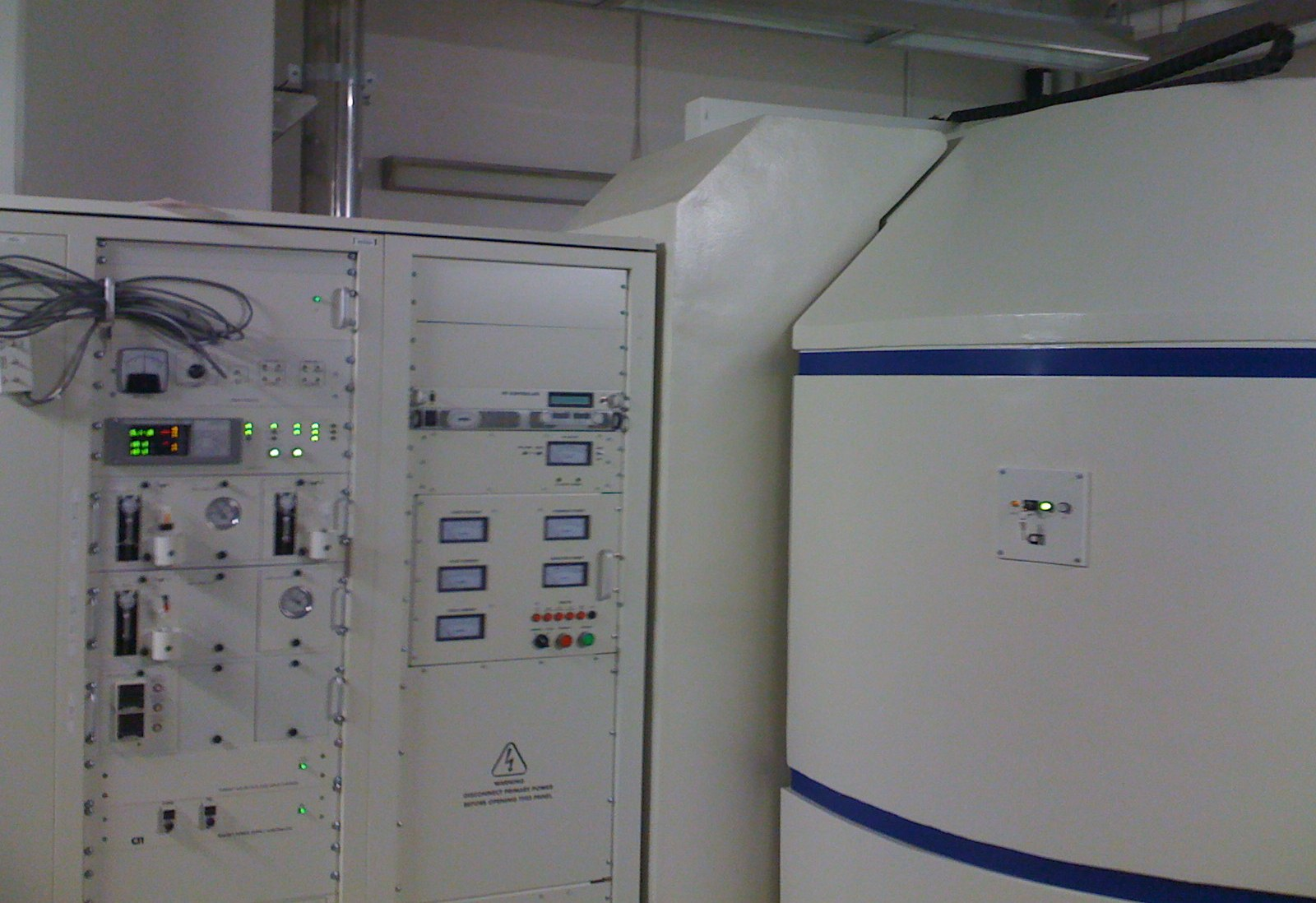 17 MeV accelerator, at RIC, UTHSCSA, San Antonio, Texas